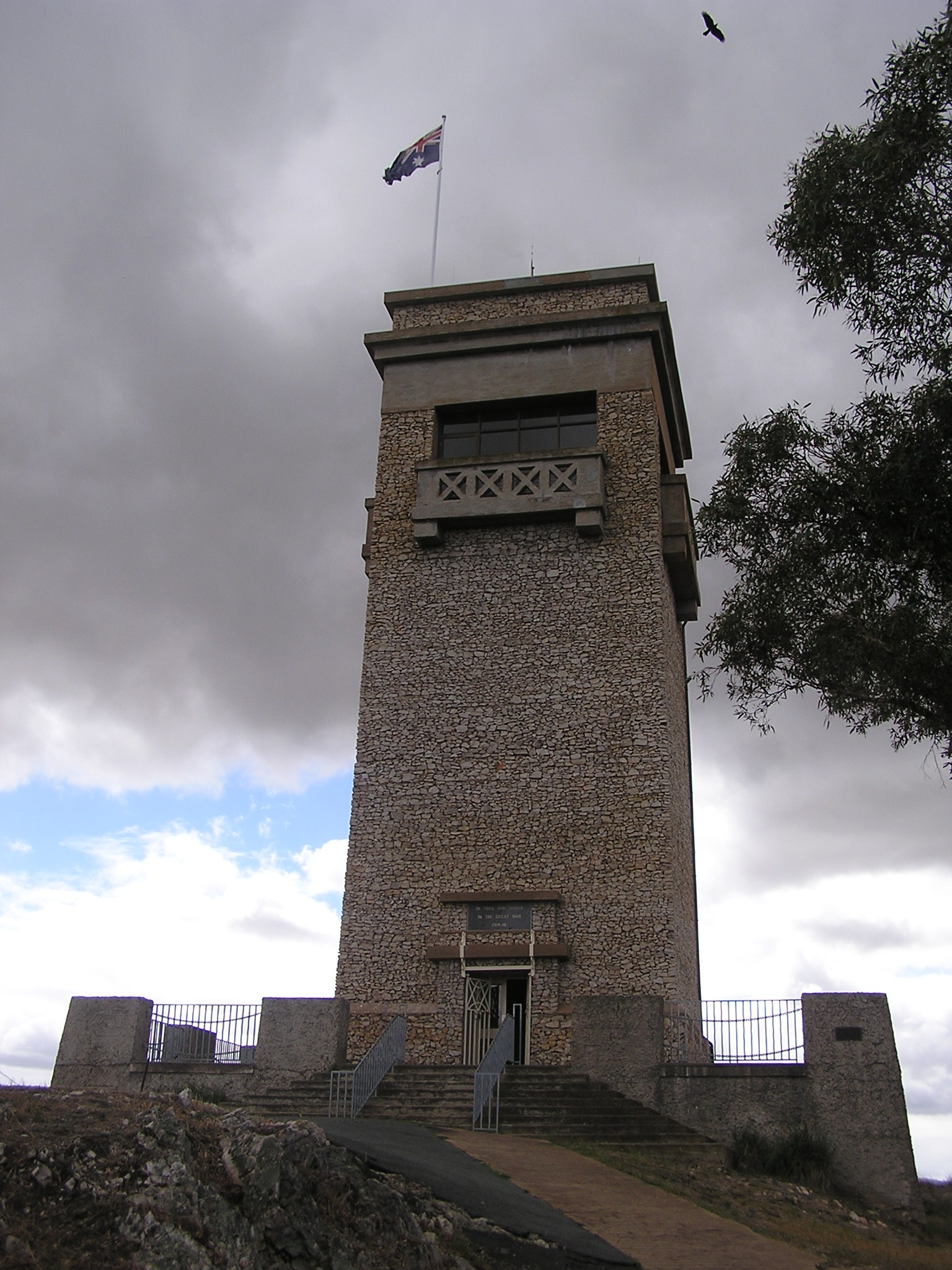 Goulburn, New South Wales, Australia - war memorial, stone and concrete tower opened in 1925 Picture taken by AYArktos